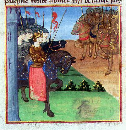 ASENATH. Part of the story tells of her rescue by Joseph's brothers from an attempted abduction and of her magnanimity toward her defeated enemies.